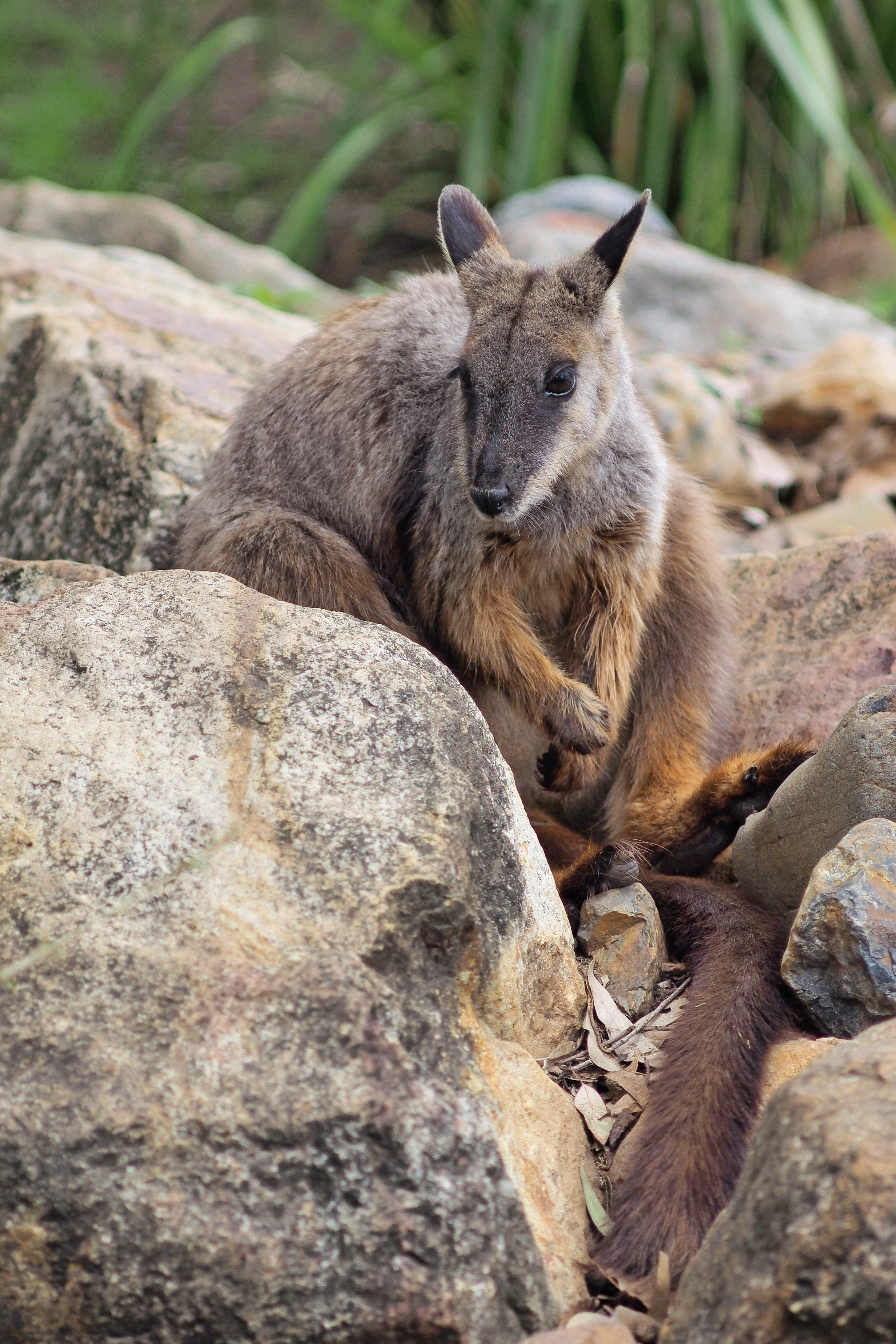 Brush tailed rock wallaby Petrogale penicillata